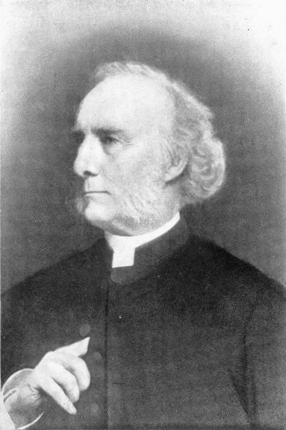 Photograph of Augustus Jessopp, 1913